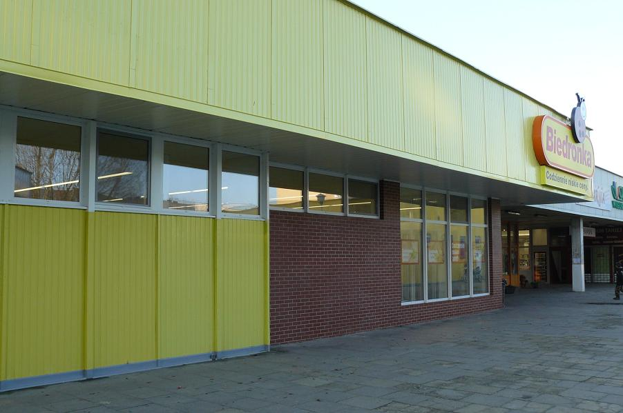 Biedronka-market in Poznan.